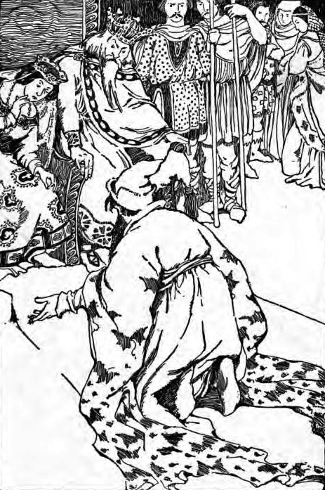 Stoor worm folklore, Princess must be fed to the monster